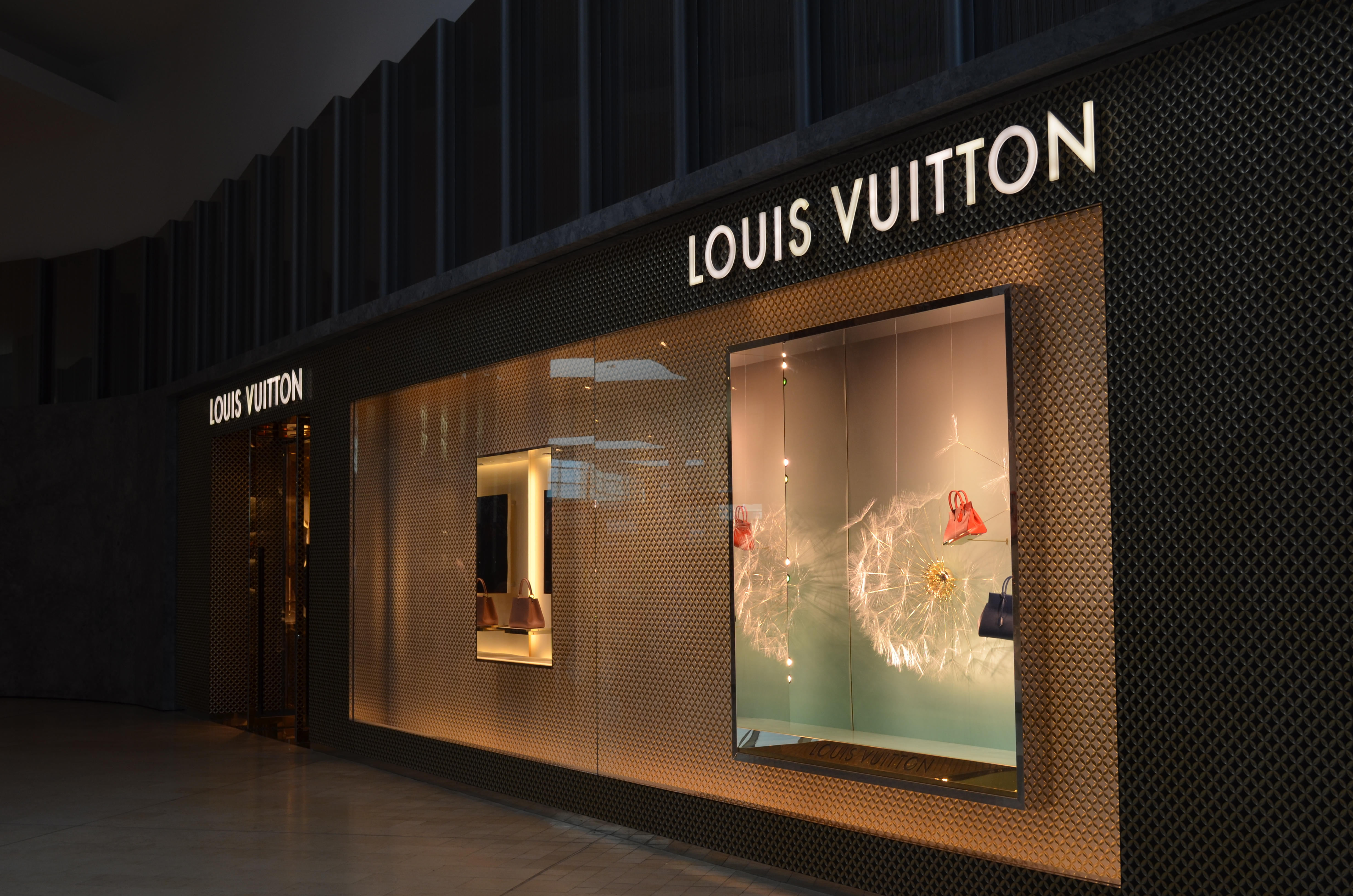 Louis Vuitton at Yorkdale Mall